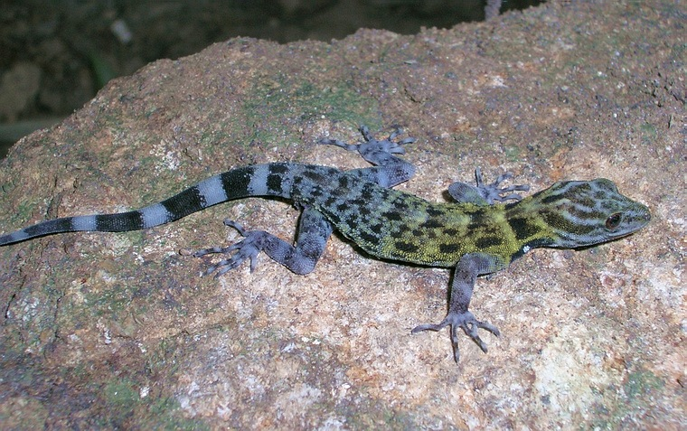 An unidentified Cnemaspis sp of day-geckos from Dharbhakulam range of Shendurney Wildlife Sanctuary, Kerala, India.